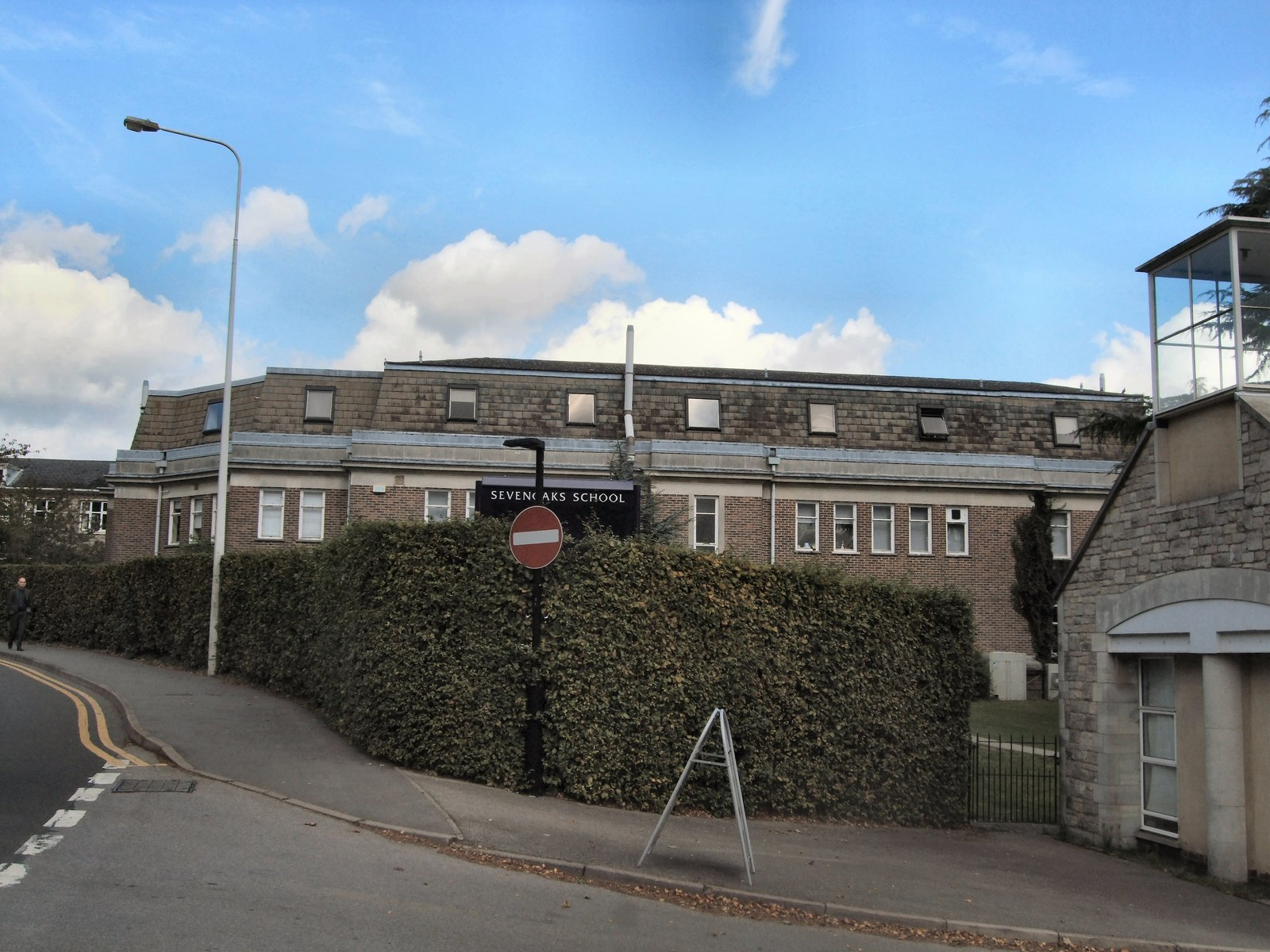 Sevenoaks School